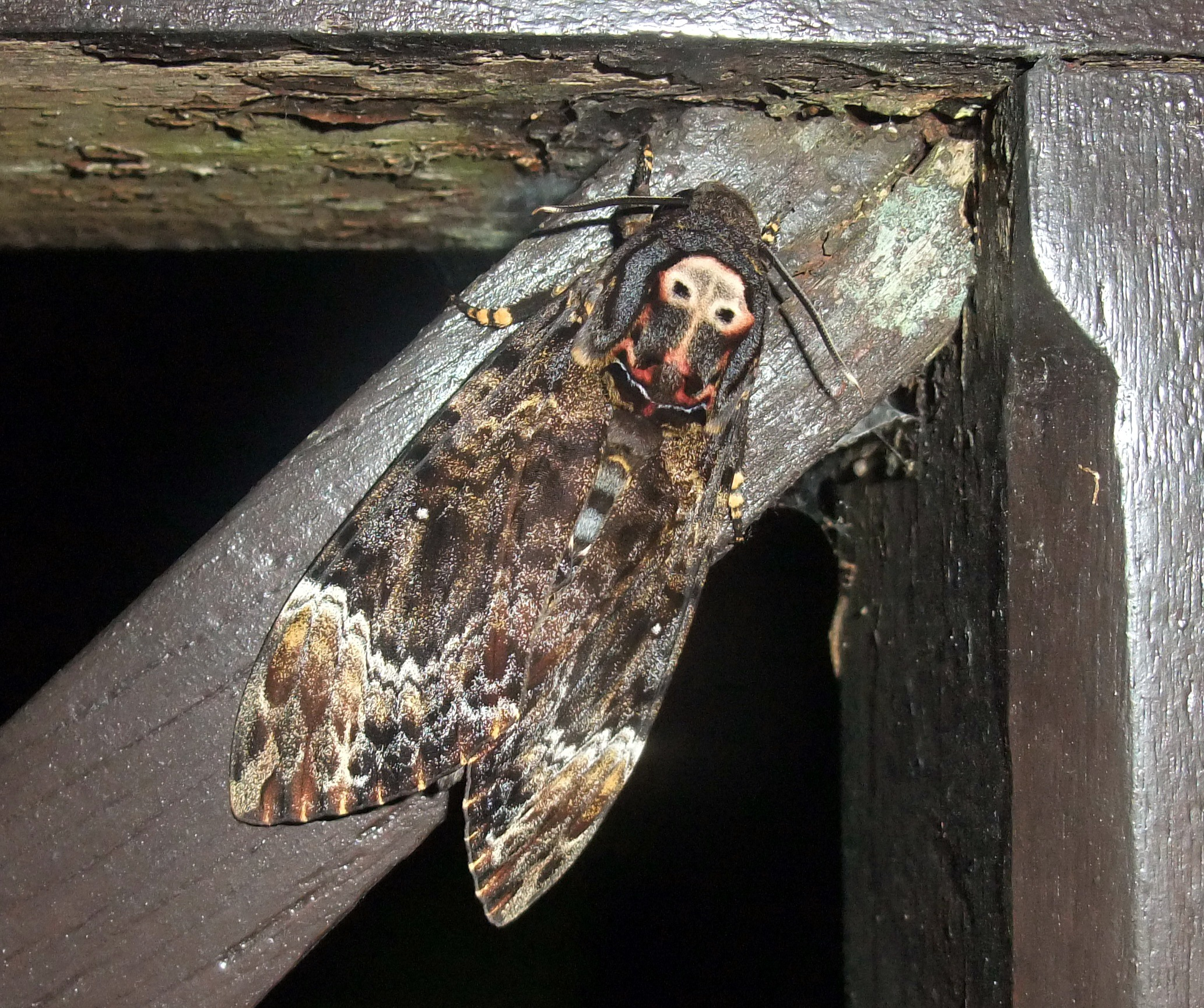 Acherontia lachesis, photo taken at Gunung Bromo, East Java, Indonesia